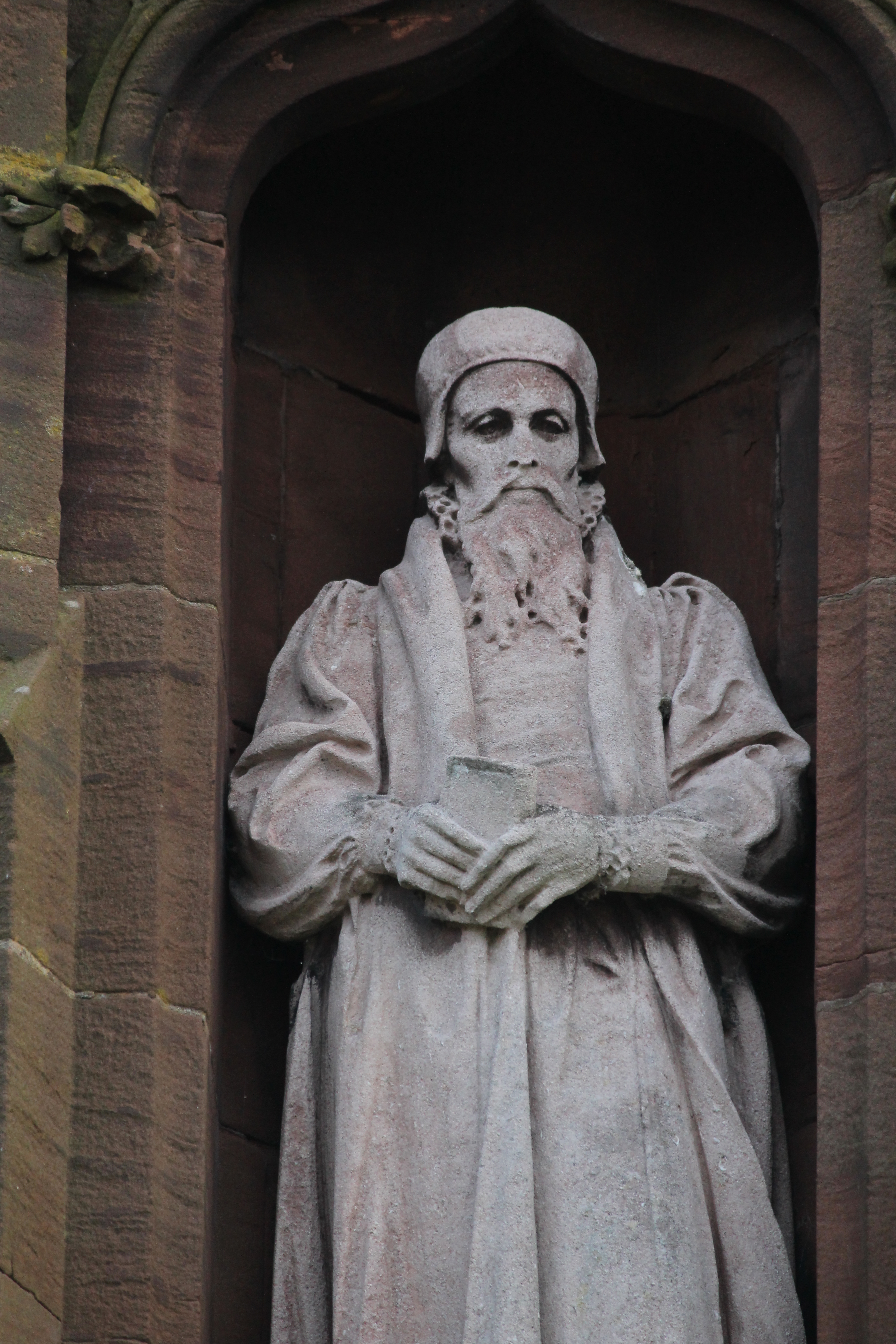 Gabriel Goodman, Dean of Westminster, and joint translator of the Welsh Bible. Translators Memorial, St Asaph Cathedral, Denbighshire. Commisioned in 1888 on the tercentenary of the Bible's completion. In 1568 Goodman translated the “First Epistle to the Corinthians" for the “Bishops' Bible” and assisted Dr William Morgan with his translation of the Bible into Welsh.